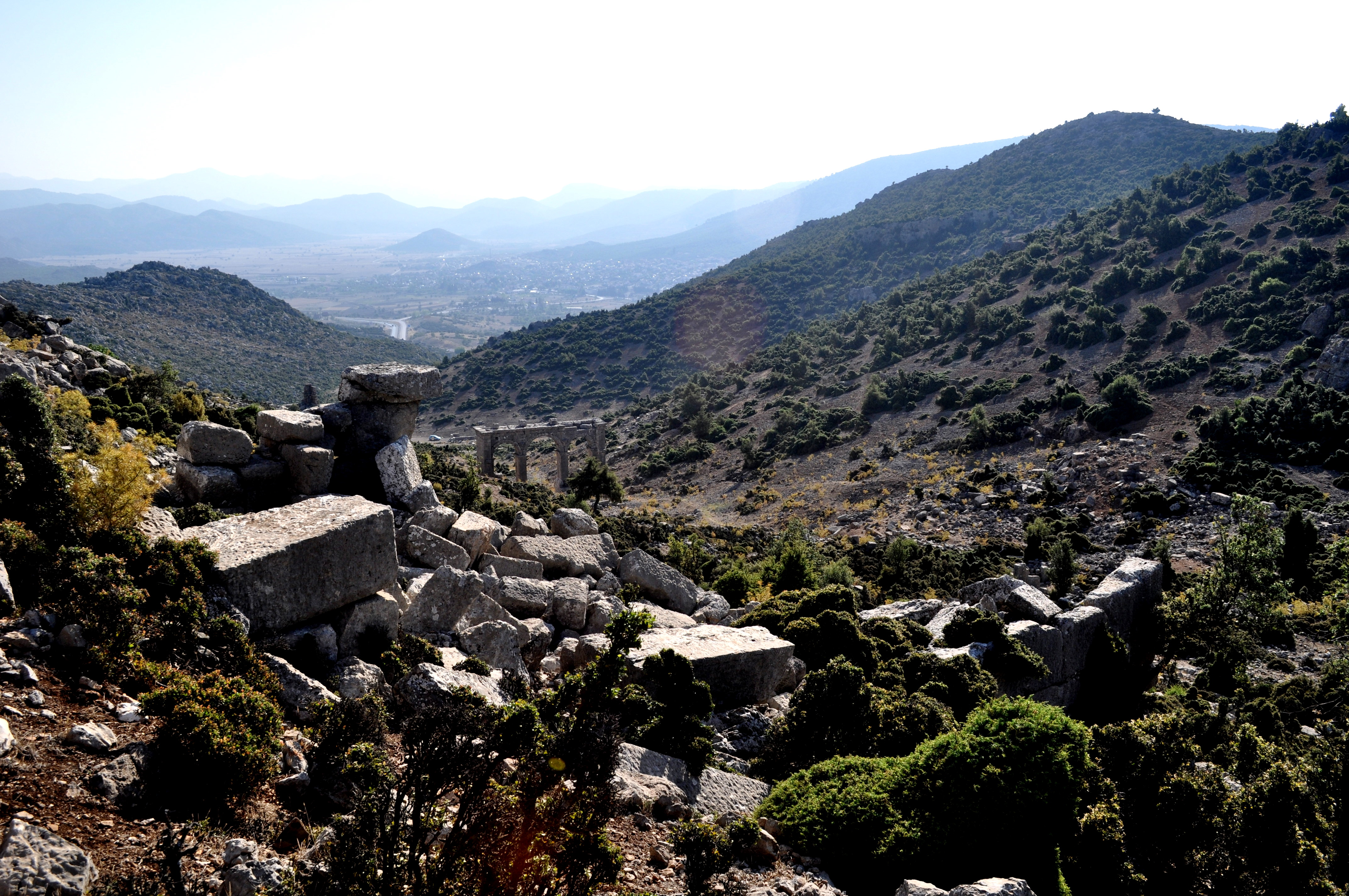 Entrance of the city of Ariassos